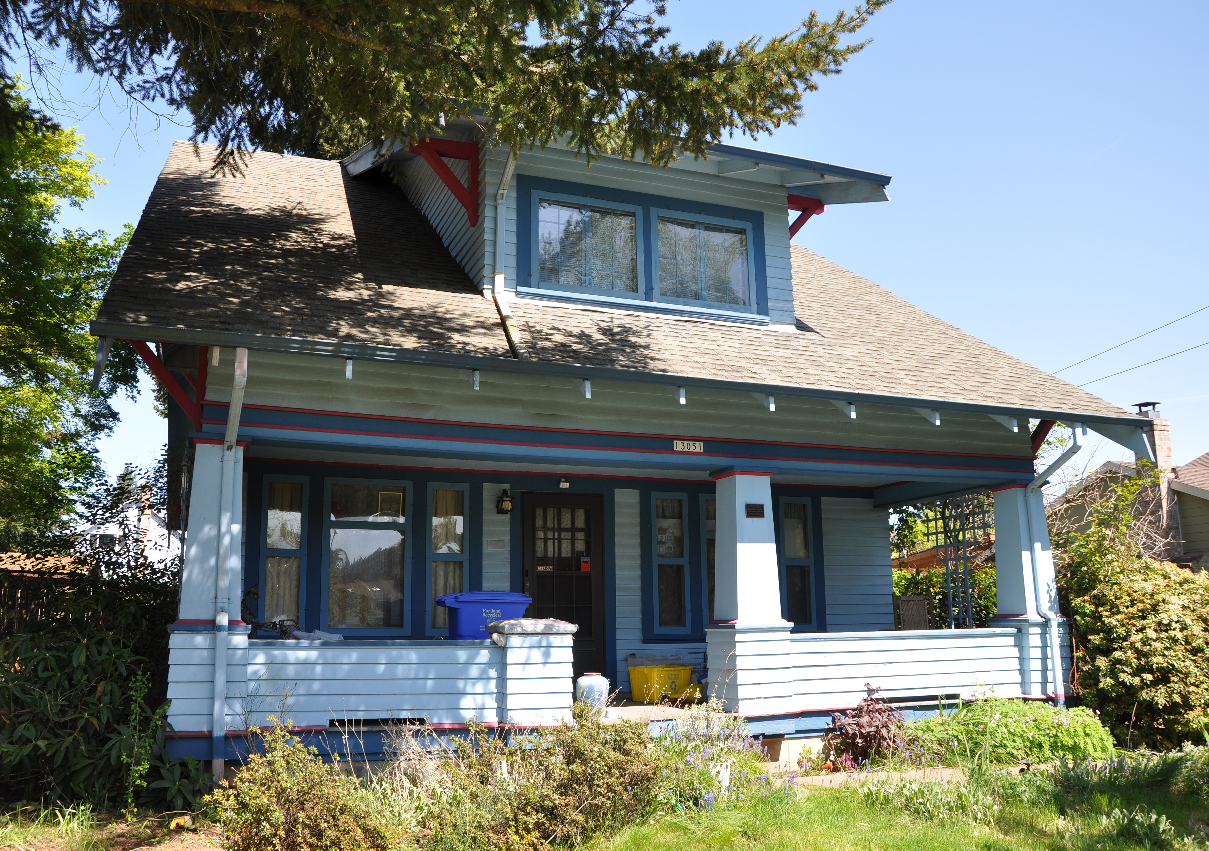 Claude Hayes Miller House on the National Register of Historic Places in southeast Portland in the U.S. state of Oregon